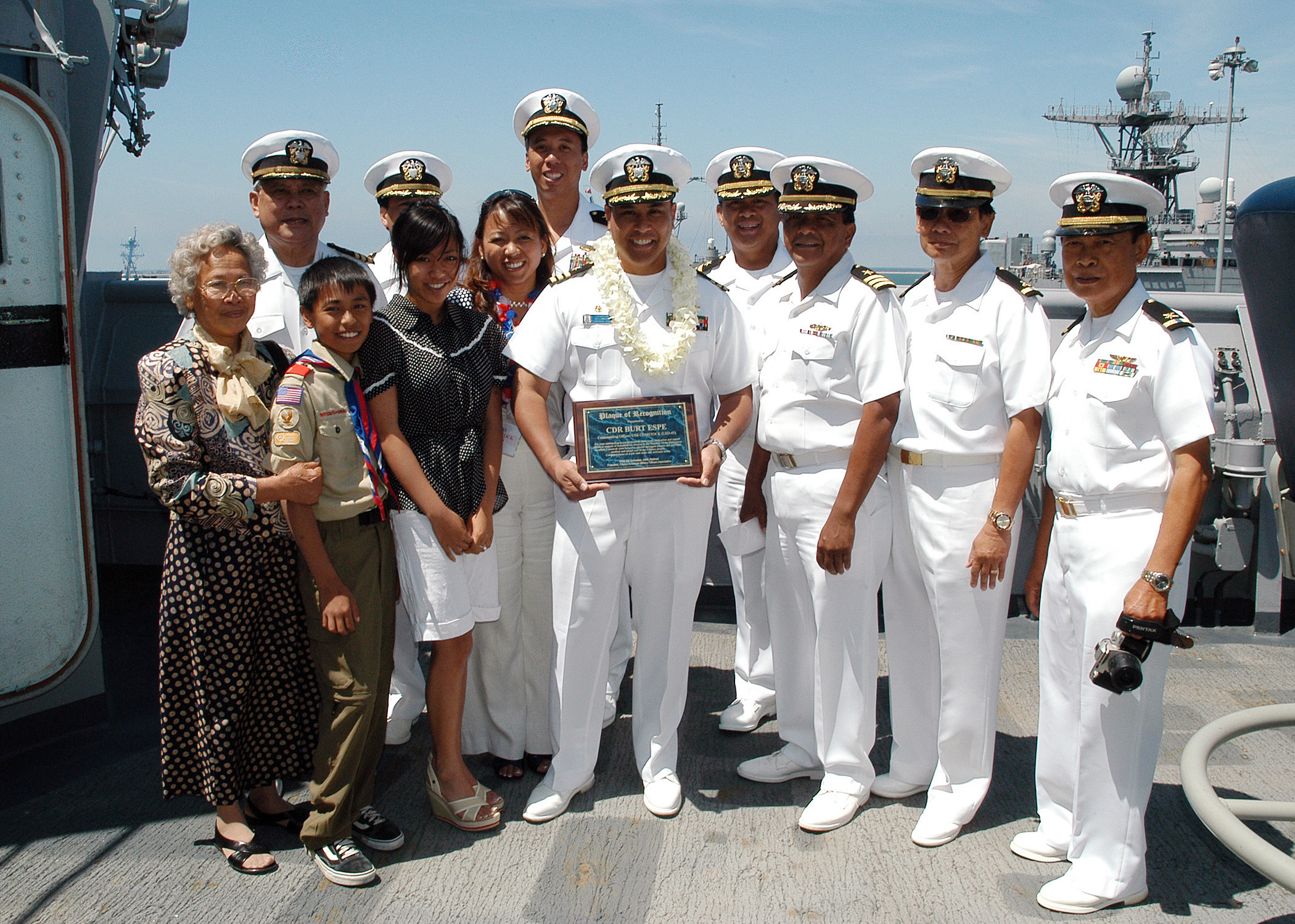 SAN DIEGO (May 31, 2007) – Dock landing ship USS Comstock (LSD 45) Commanding Officer, Cmdr. Burt L. Espe and his family receive an outstanding achievement award by retired Cmdr. Gil Gonzales, president of the Filipino American Military Officer Association. Espe earned the award for his reconstruction efforts with the Philippine Armed Forces. Comstock returned home from a near nine-month deployment in support of the global war on terrorism. U.S. Navy photo by Mass Communication Specialist 2nd Class Jenniffer Rivera (RELEASED)